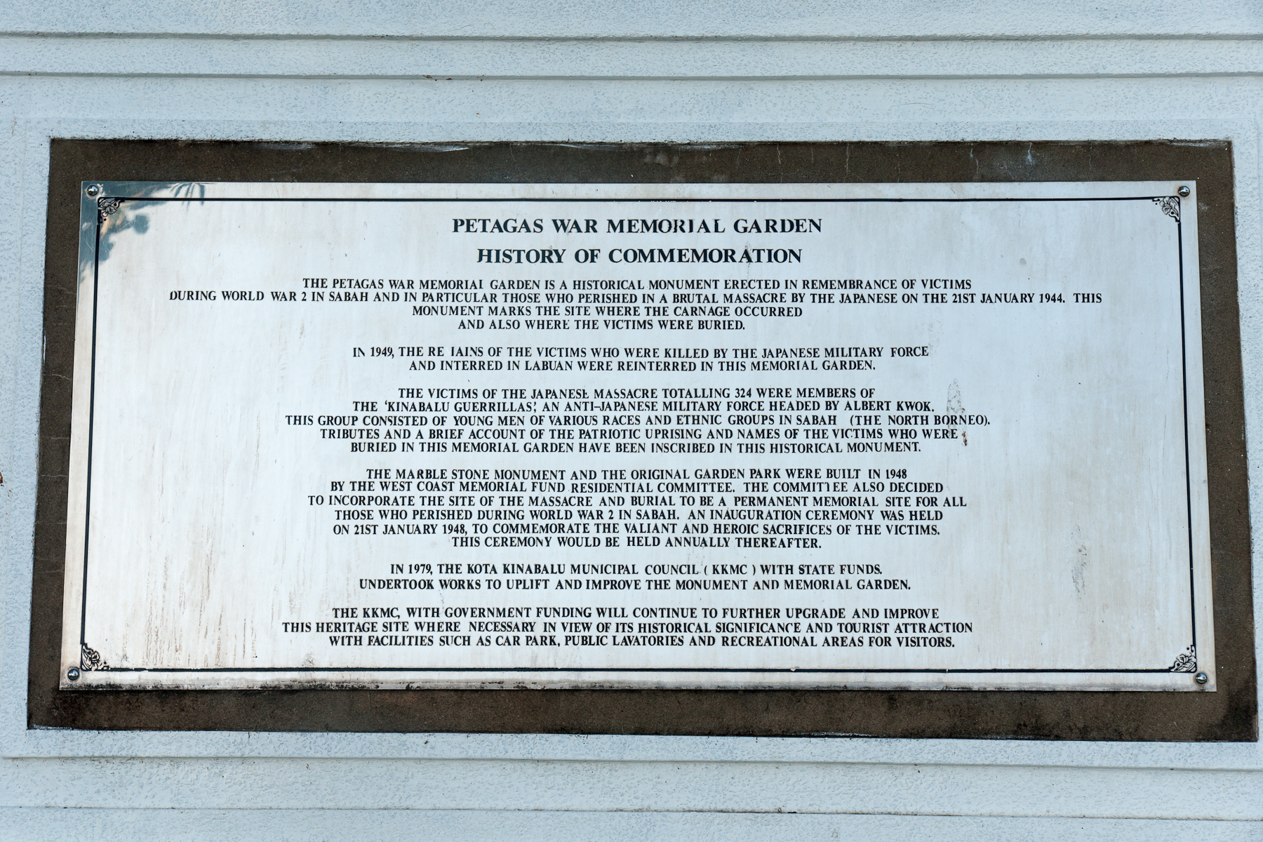 Kg. Petagas, District Putatan: Petagas War Memorial, History Information